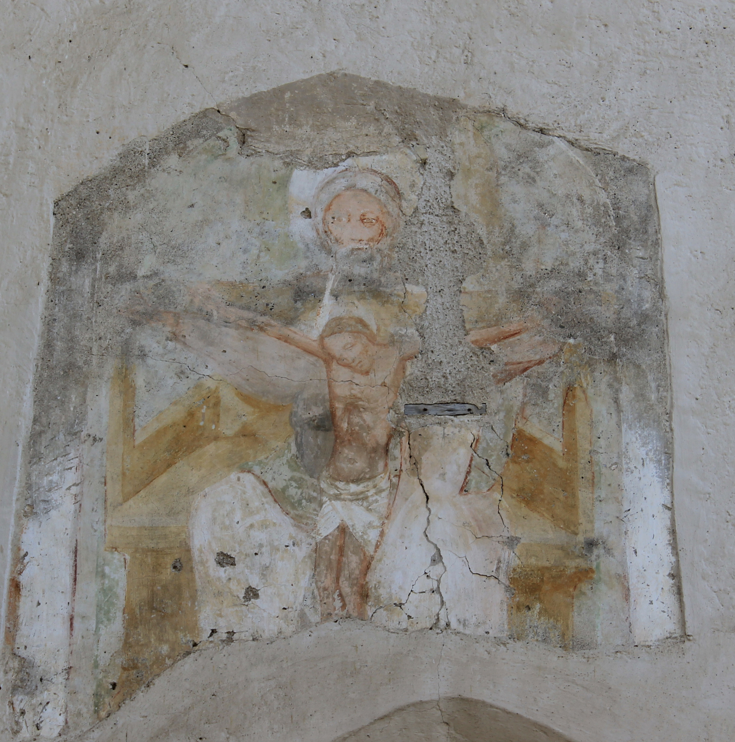 Saint Erhard church in Sankt Paul im Lavanttal